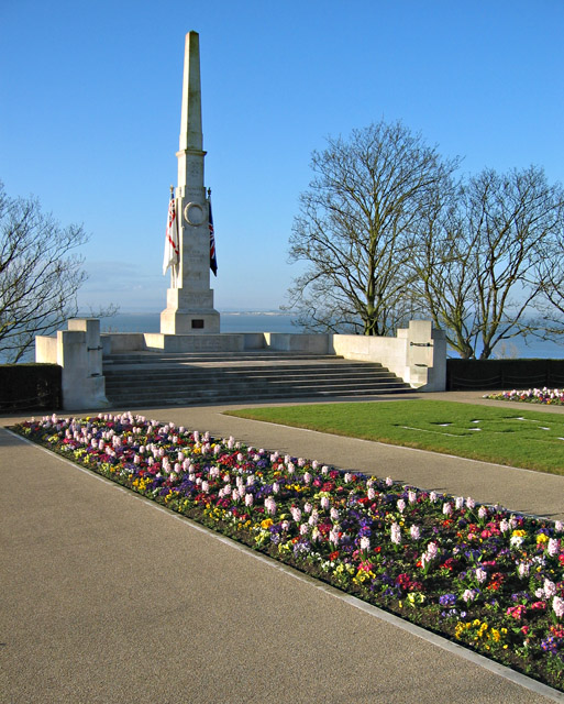 Southend-on-Sea war memorial An impressive portland stone memorial in the gardens on top of the cliffs in Clifftown Parade. Designed by Edwin Lutyens, it commemorates the dead of both World Wars, but contains no roll of honour.